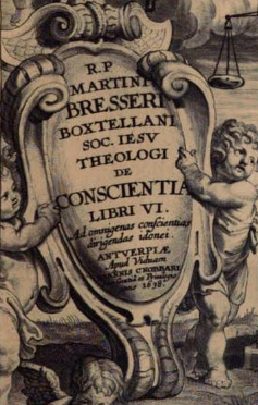 Detail of the book De Conscientia Libri VI.